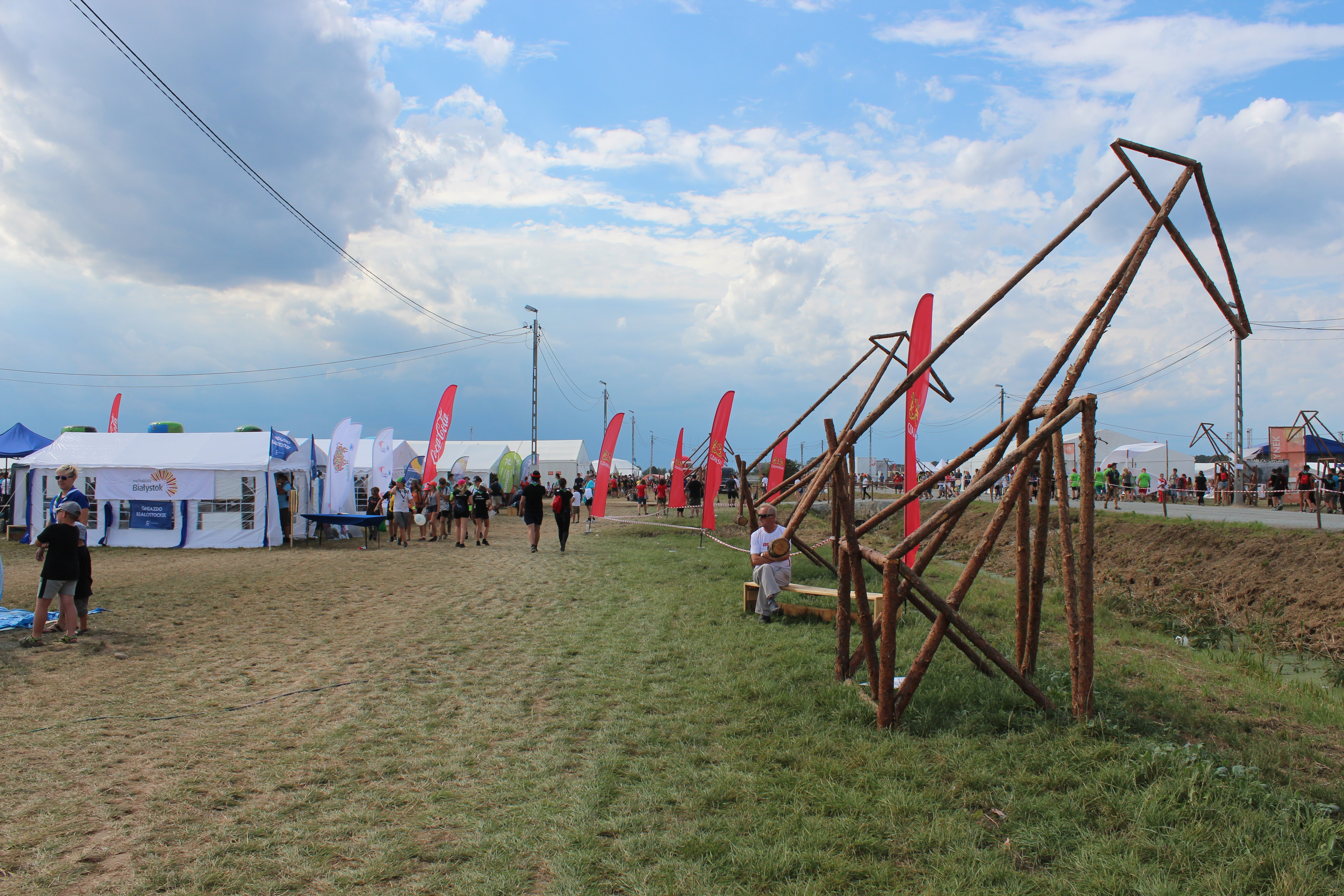 Gdańsk 2018 - Polish Scouting and Guiding Association Jamboree